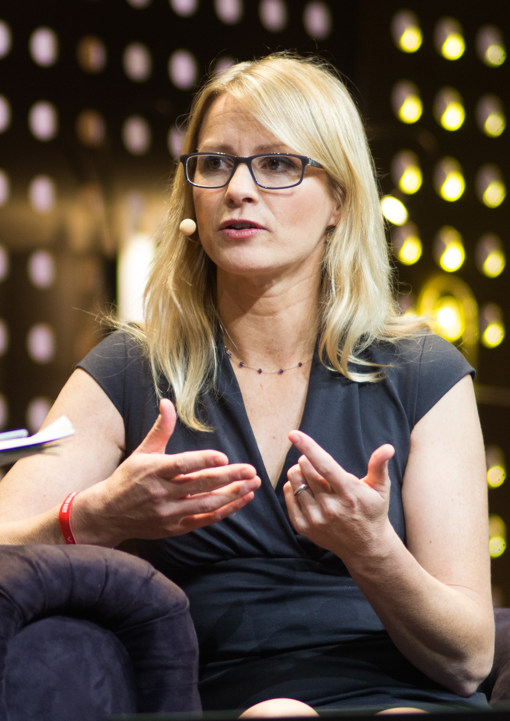 Katie Jacobs Stanton at LeWeb12 Conference, Paris, France